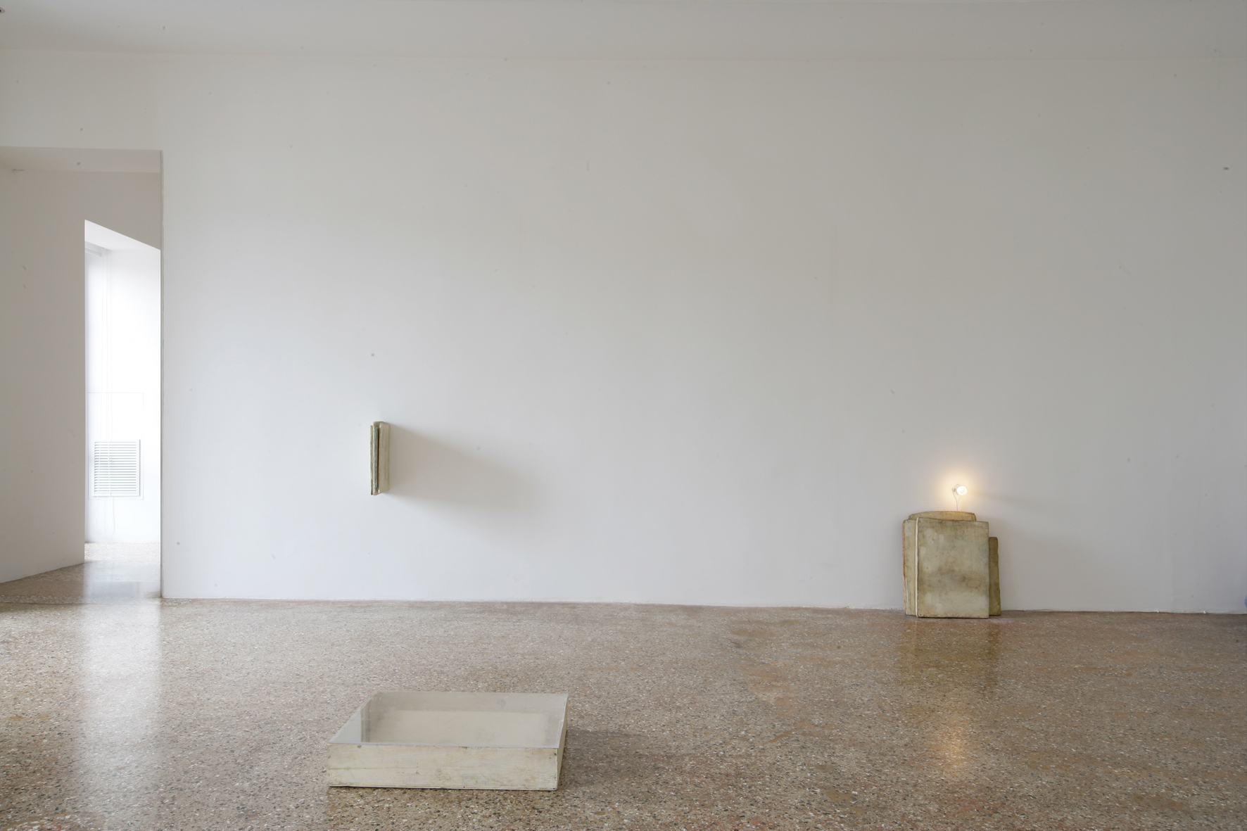 Lawrence Carroll, Museo Correr, Venezia, 2008